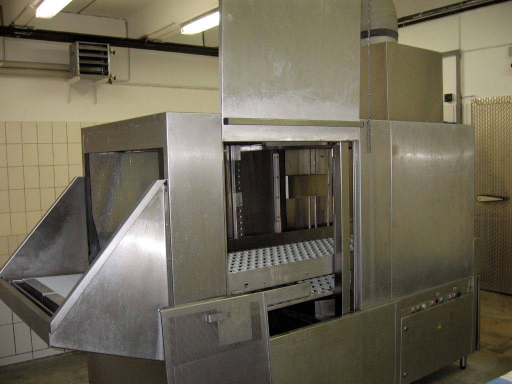 Industrial class dishwasher Hobart UWX